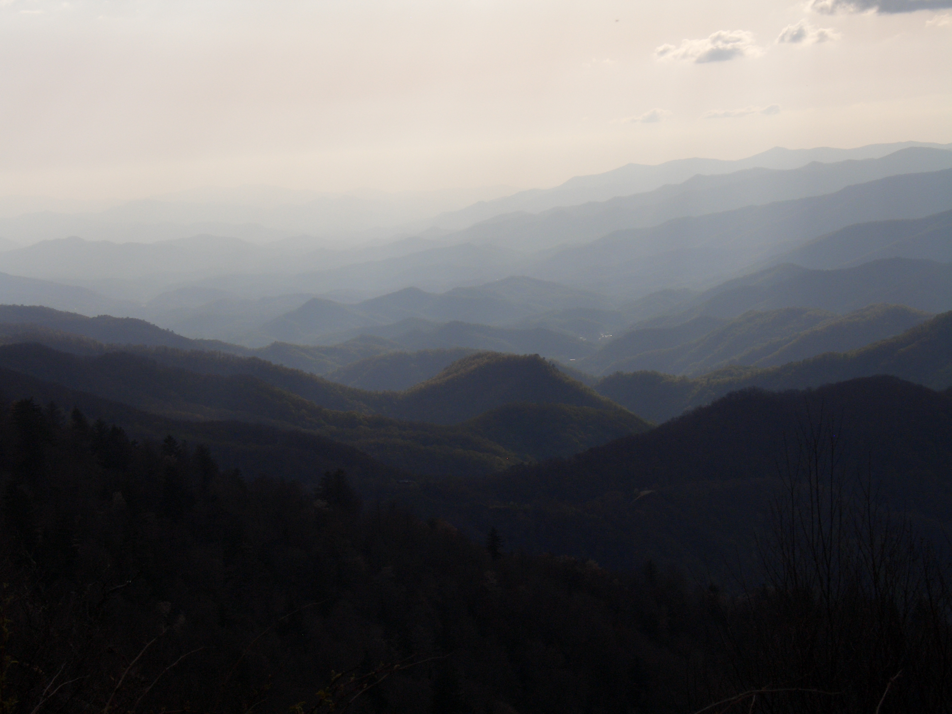 View on the Blue Ridge Mountains from the Blue Ridge Parkway